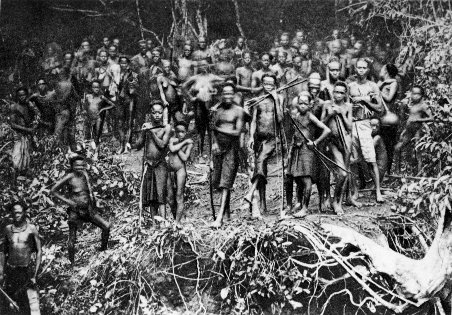 People gathered in the forest, at the passage of the steamboat “Roi des Belges” (“King of the Belgians”). – Sankuru (1888) – p. 258